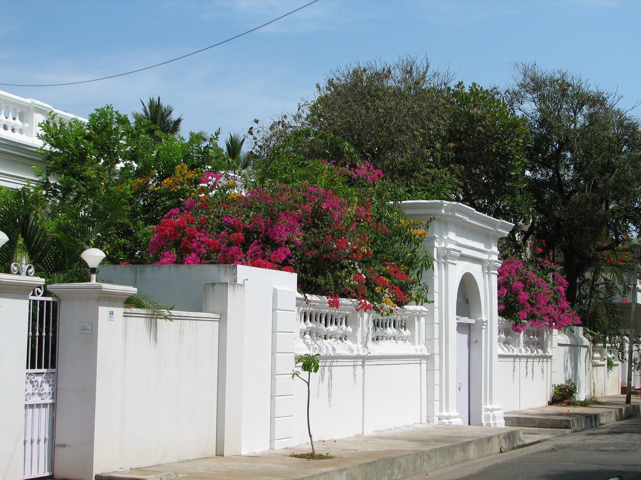 India - Pondicherry - 001 - Vibrant flowers & French architecture